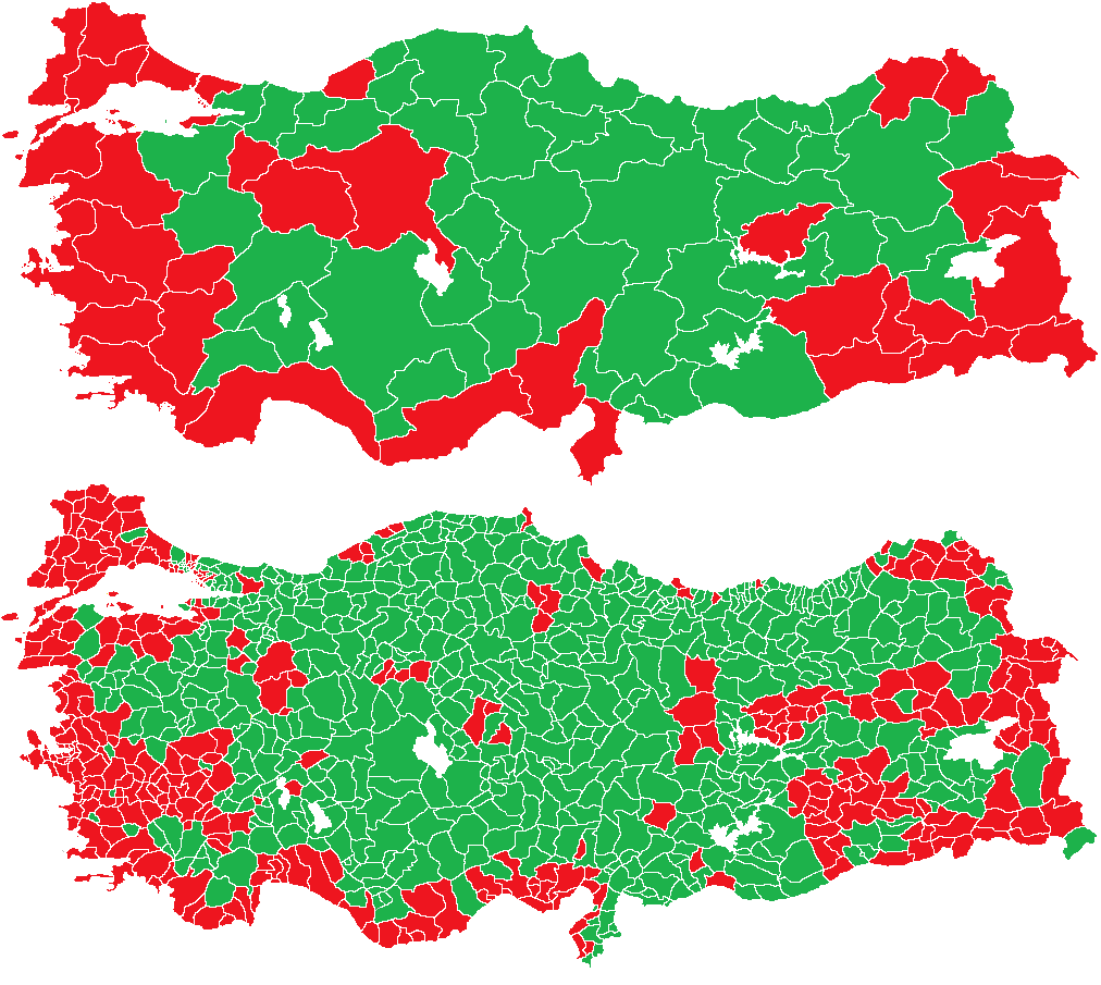 Turkish constitutional referendum 2017 geographical results